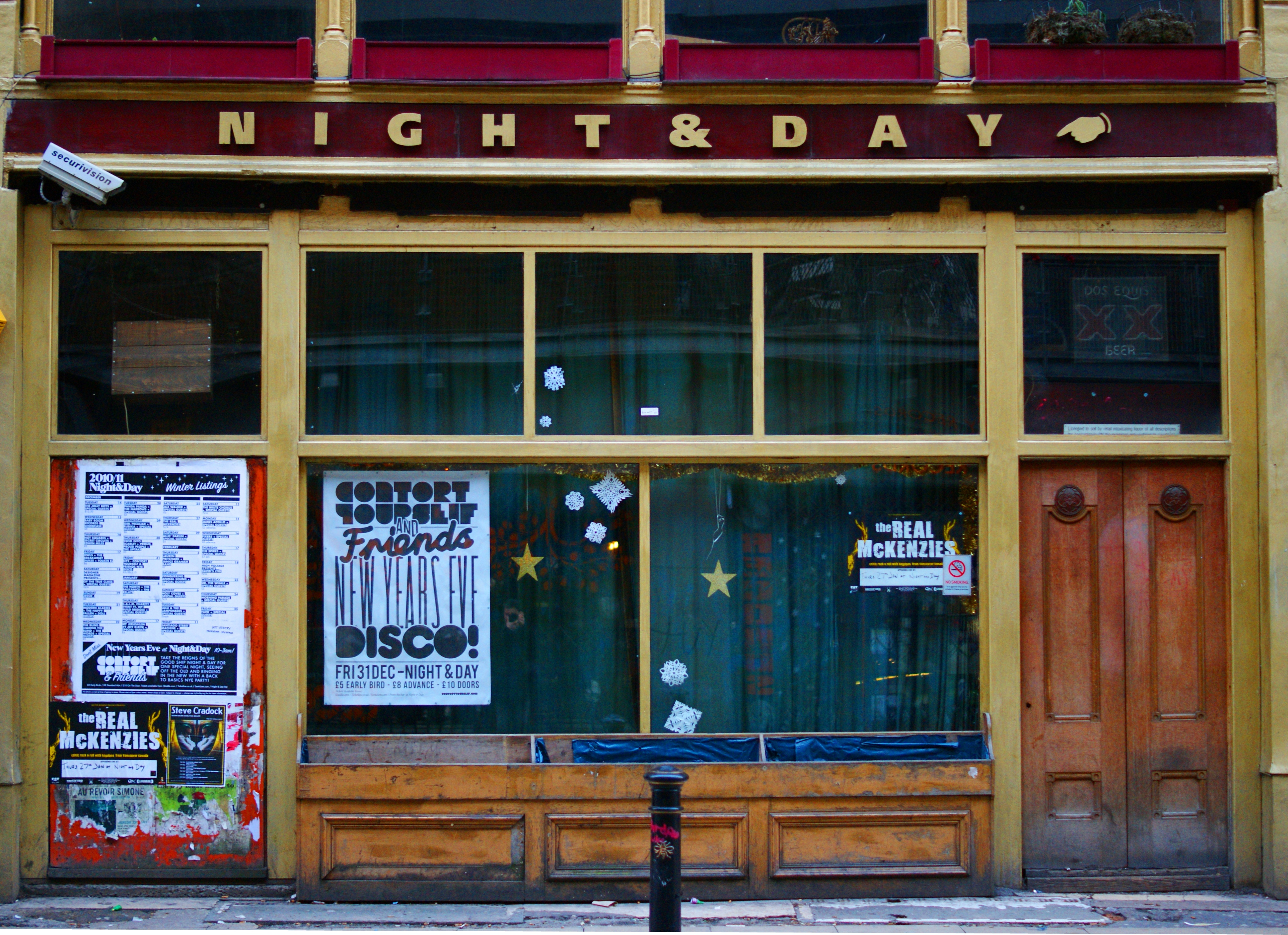 The Night and Day Café, 02/01/11.